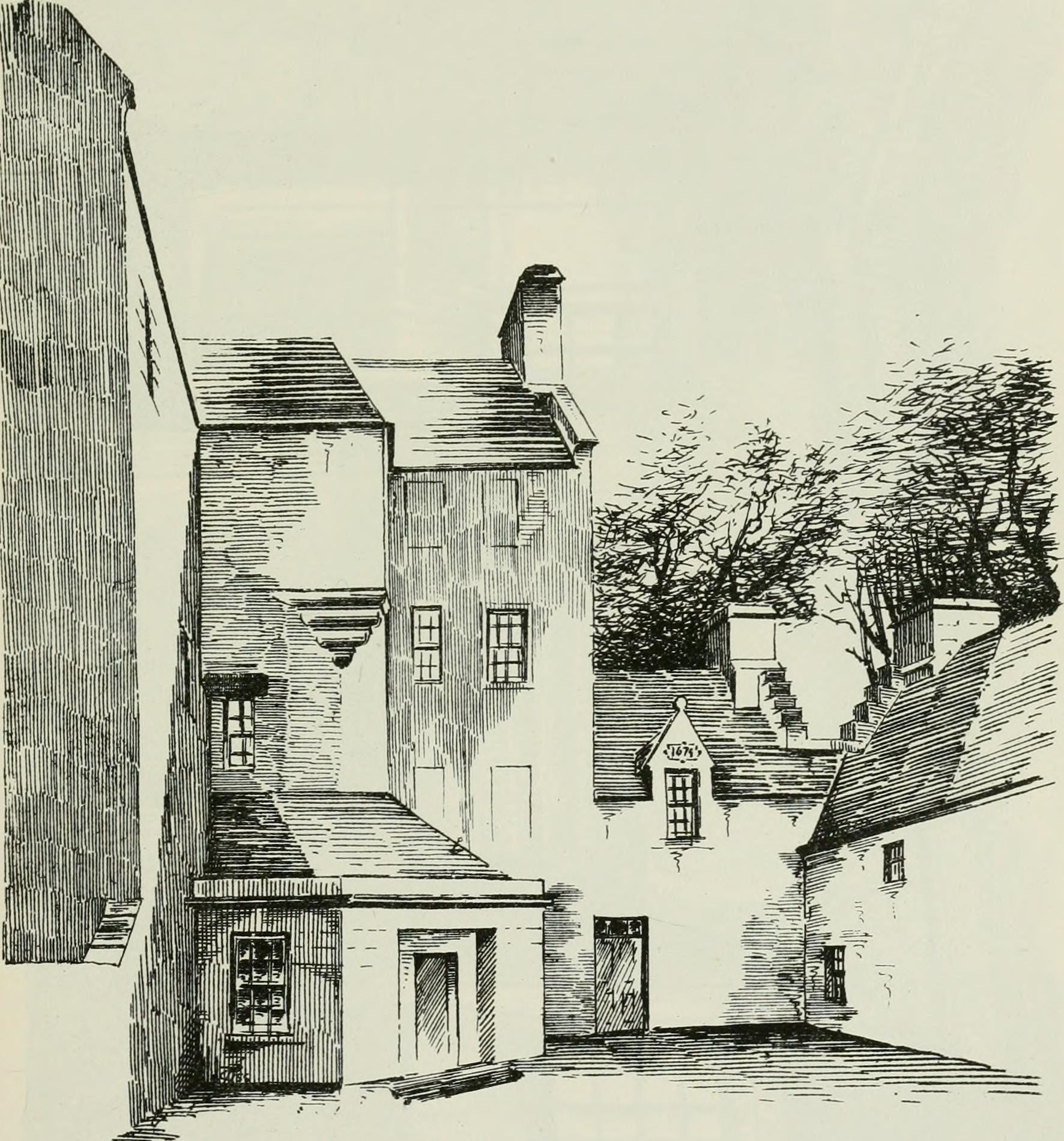 Title: The castellated and domestic architecture of Scotland, from the twelfth to the eighteenth century Year: 1887 (1880s) Authors: MacGibbon, David, d. 1902 Ross, Thomas, 1839-1930 Subjects: Architecture Architecture, Domestic Castles Publisher: Edinburgh : D. Douglas Text Appearing Before Image: land at the mouth of Loch Ridden, andfought a battle with the troops of James ii. The Stewarts of Appin then for a time preyed on Cowal, and afterthem it was under the lieutenancy of MLachlan of Strathlachlan. In1745 the district was forfeited to the Crown, and the lands of Innellanwere given to a branch of the house of Argyle, whose descendants stillown them. LEITH HALL, Aberdeenshire. A structure of the L Plan, in the district of Garioch, which has beenmuch added to and altered, but still retains its turrets on the angles. Itwas built by James Leith, the thirteenth in succession of an old family ofthat name, about 1650.t * We have to thank Mr. James D. Roberton, Glasgow, for the description ofthis building. t The Castellated Architecture of Aberdeenshire, by Sir A. Leith Hay of Rannes. LIBEUTON HOUSE — 315 FOURTH PERIOD LIBERTON HOUSE,* Midlothian. Liberton House or Place, as it is termed in an eighteenth centurysurvey of the locality, is situated in the immediate neighbourhood of Text Appearing After Image: Fig. 14-J7. -Liberton House. View in Coinlyard. * We have to thank Mr. G. Godfrey Cunninghame, advocate, tenant of Lil)ertonHouse, for the ground plan of this house, and for information regarding the numerousdiscoveries of old work he has brought to light, and we are indebted to Miss Cun-ninghame for the use of the drawing which is shown reduced in Fig. 1431. FOURTH PERIOD — 316 LIBERTON HOUSE